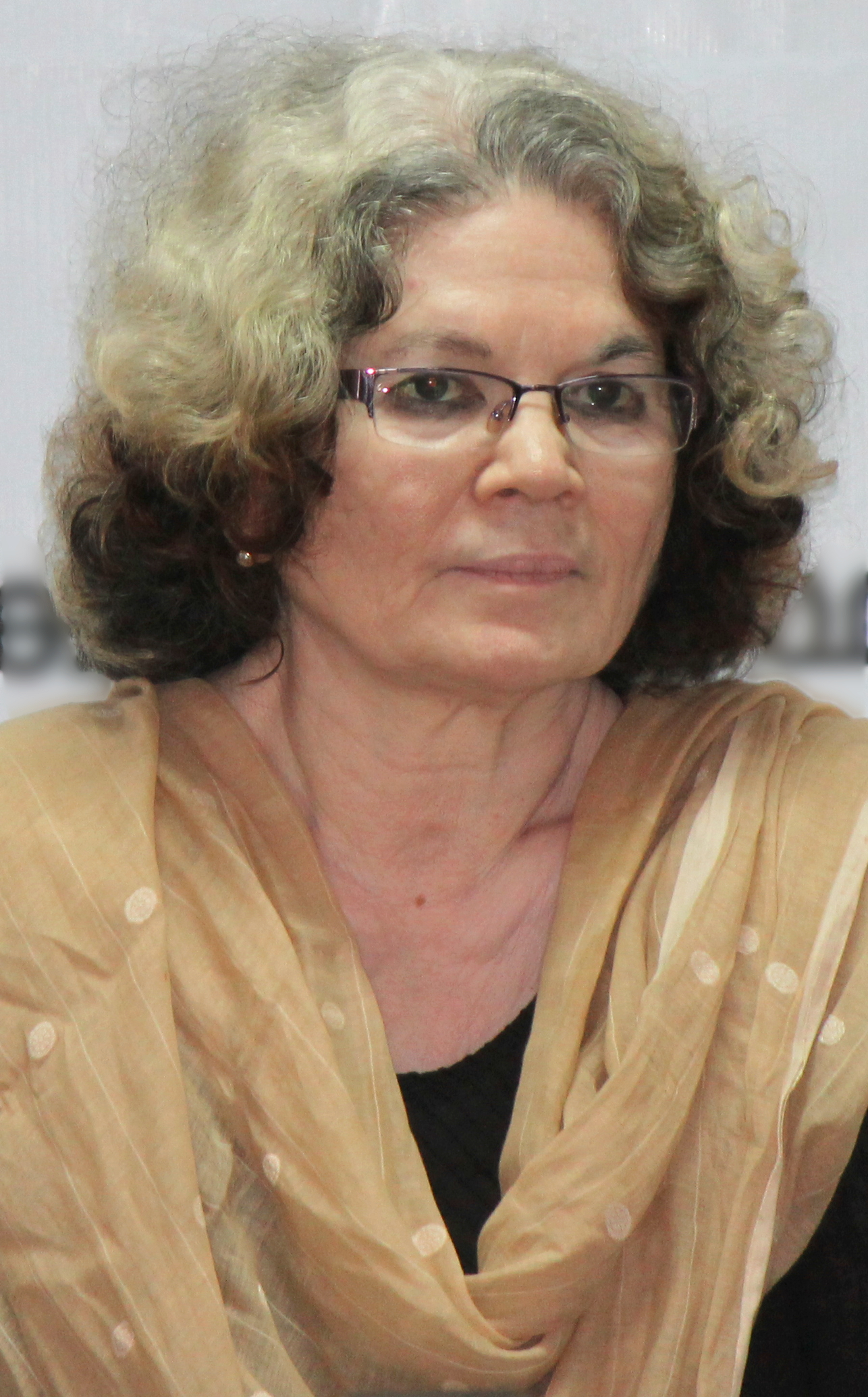 Sara Joseph - Malayalam Writer and Activis